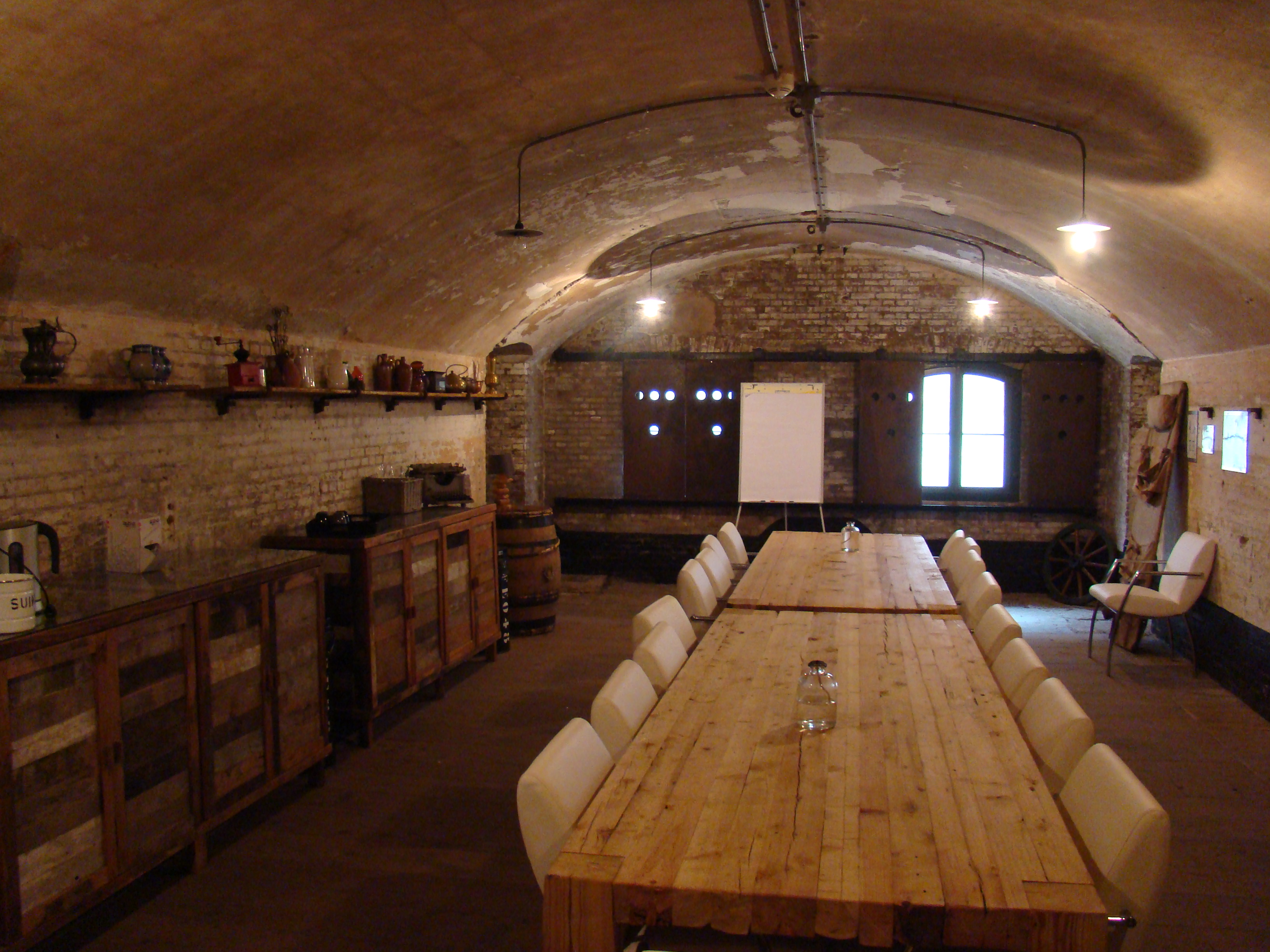 Fortress at IJmuiden (The Netherlands), inside.